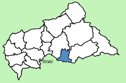 Map showing location of Basse-Kotto Prefecture in Central African Republic